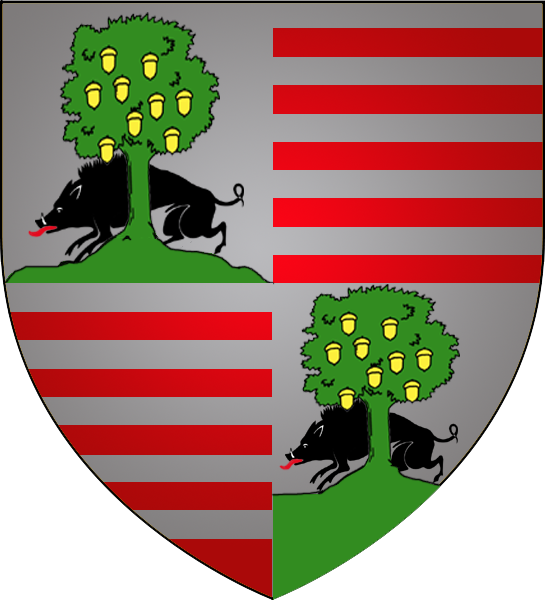 Coat of arms of the municipality of Esch-sur-Sûre, Luxembourg